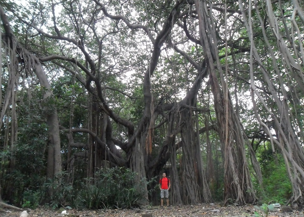 Banyan tree in India